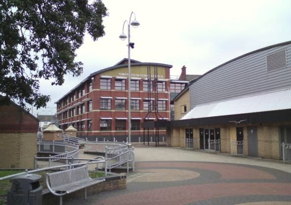 North Lincolnshire Council buildings, Scunthorpe